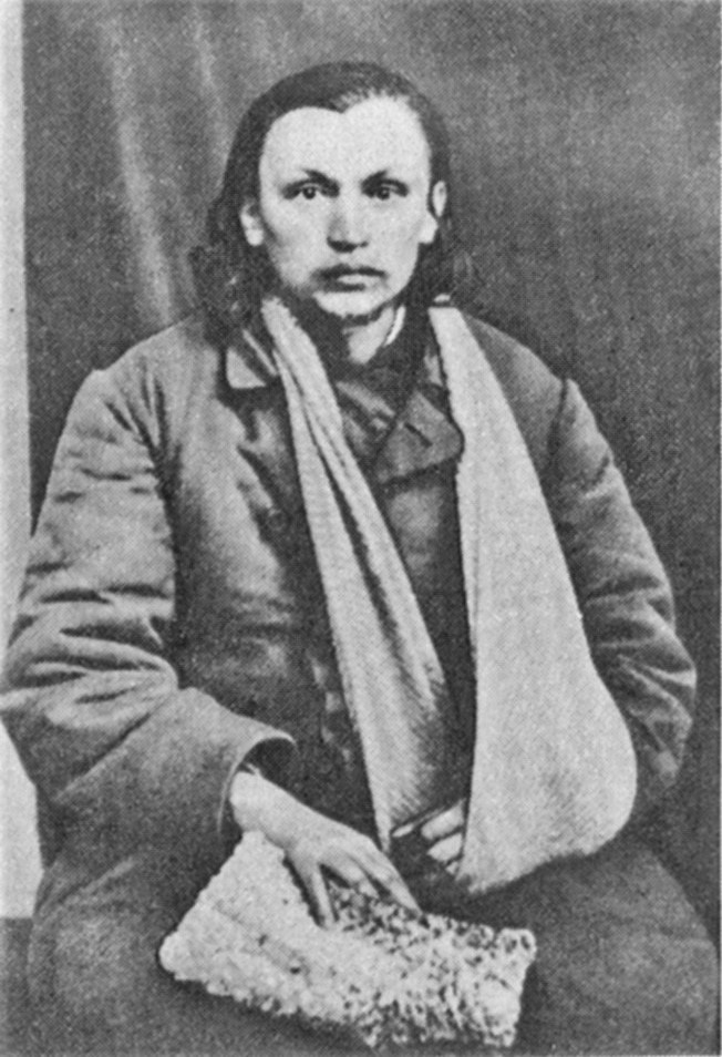 Photo portrait of a priest Stanisław Brzóska